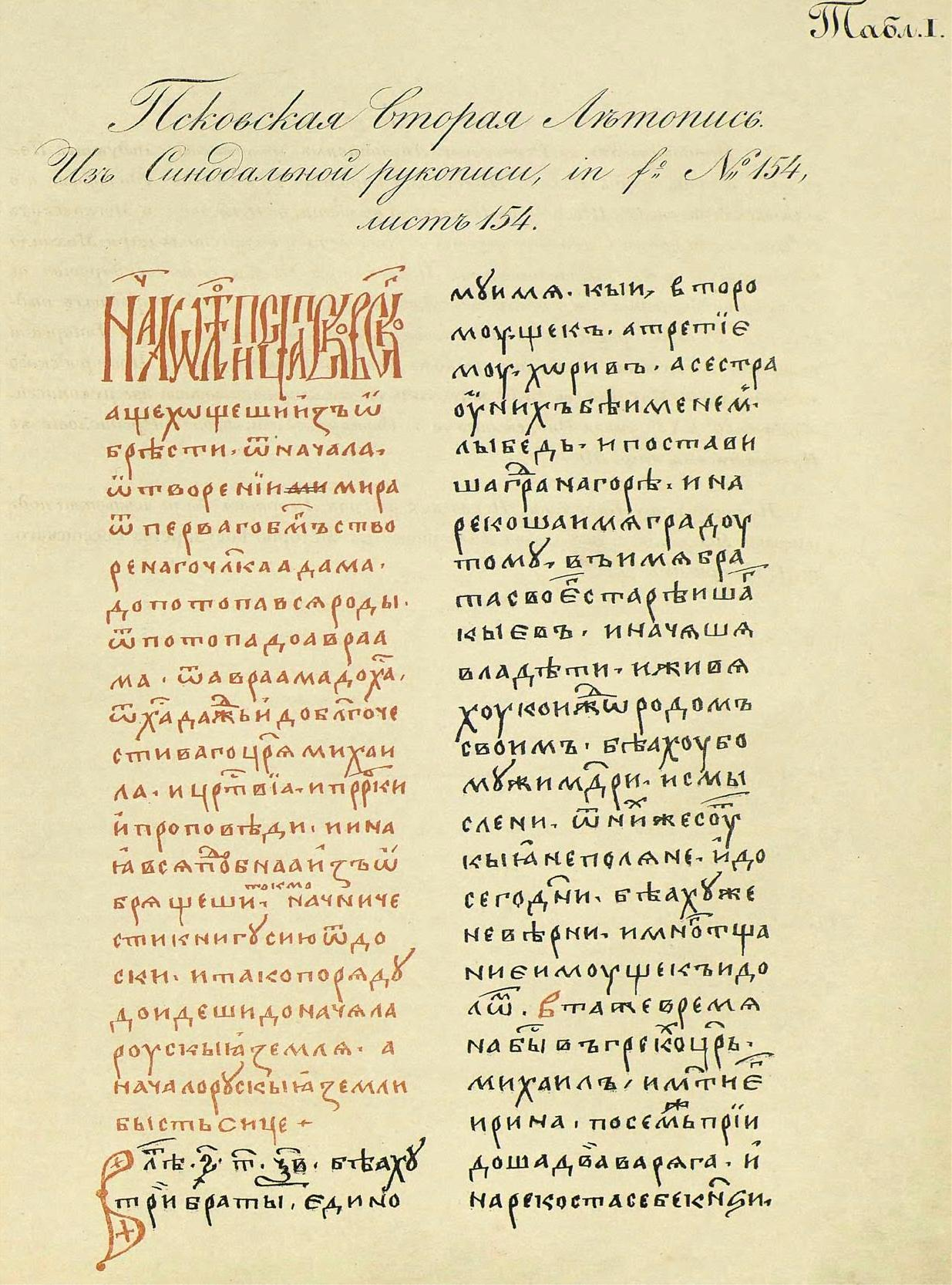 A 19th century facsimile copy of the first verses of the 2nd Pskov Chronicle (the Primary Chronicle): chronist's introduction in red and the legendary foundation of Kiev by Kiy, Schek and Khoriv in the year 6362 from Creation (854 AD) in blue.